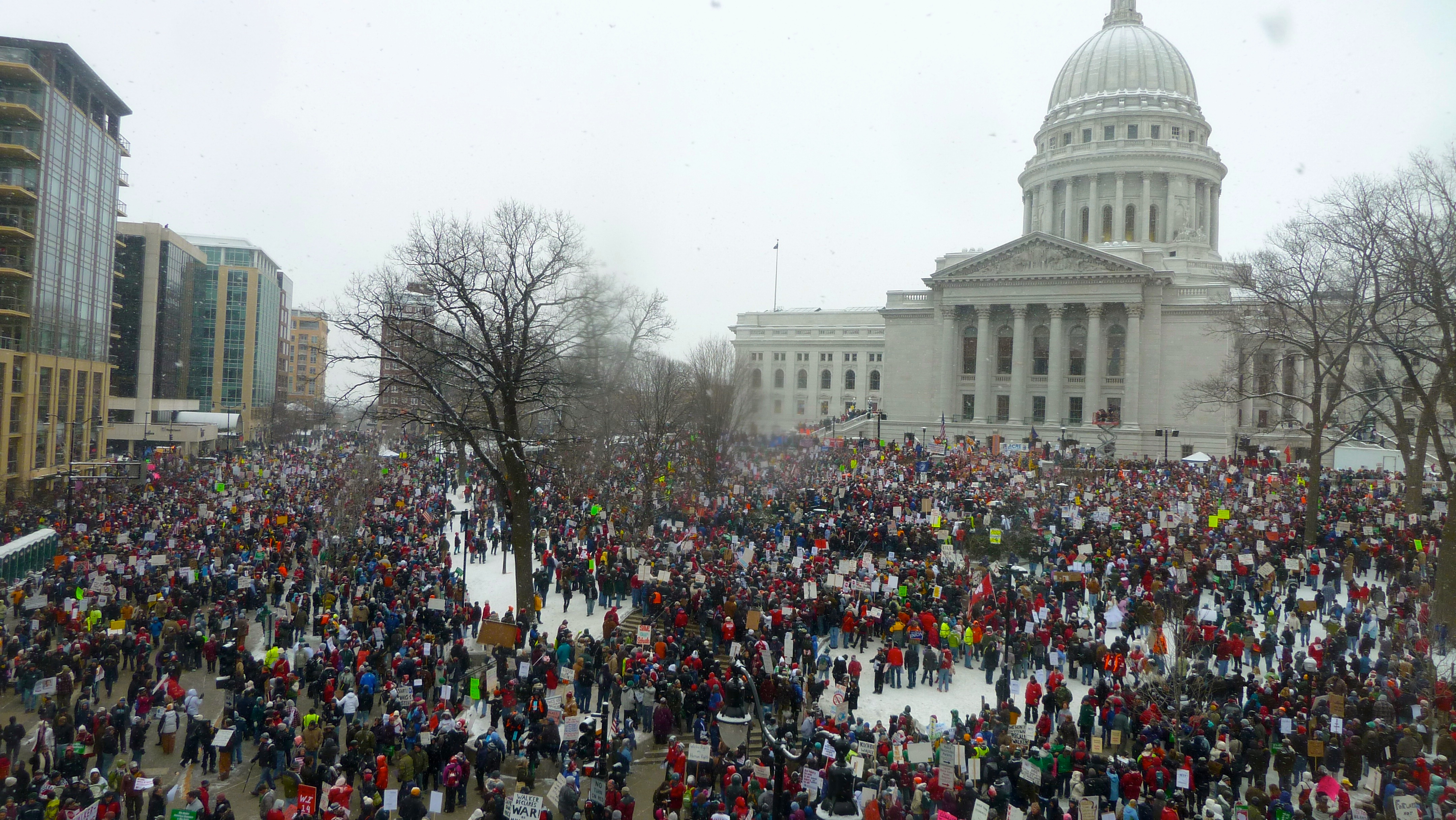 Thousands of people gather outside of the Wisconsin state capitol building during the 2011 Wisconsin Budget Protests.